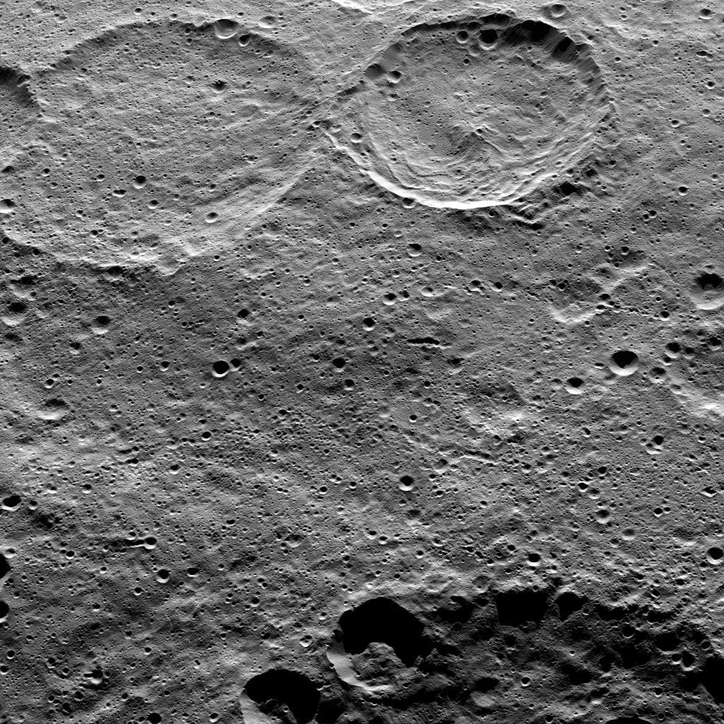 PIA20149: Dawn HAMO Image 86 This image of Ceres, taken by NASA's Dawn spacecraft, shows Sintana Crater (36 miles, 58 kilometers wide) at top, just right of center. The rim of a large crater called Zadeni (80 miles, 128 kilometers wide), is seen at the bottom of the image. Dawn took this image from an altitude of 918 miles (1,478 kilometers) during its High Altitude Mapping Orbit (HAMO) phase on Oct. 20, 2015. Image resolution is 394 feet (120 meters) per pixel. The scene is located in the southern hemisphere of Ceres at approximately 55 degrees south latitude, 40 degrees east longitude. Dawn's mission is managed by JPL for NASA's Science Mission Directorate in Washington. Dawn is a project of the directorate's Discovery Program, managed by NASA's Marshall Space Flight Center in Huntsville, Alabama. UCLA is responsible for overall Dawn mission science. Orbital ATK, Inc., in Dulles, Virginia, designed and built the spacecraft. The German Aerospace Center, the Max Planck Institute for Solar System Research, the Italian Space Agency and the Italian National Astrophysical Institute are international partners on the mission team. For a complete list of acknowledgments, For more information about the Dawn mission, visit